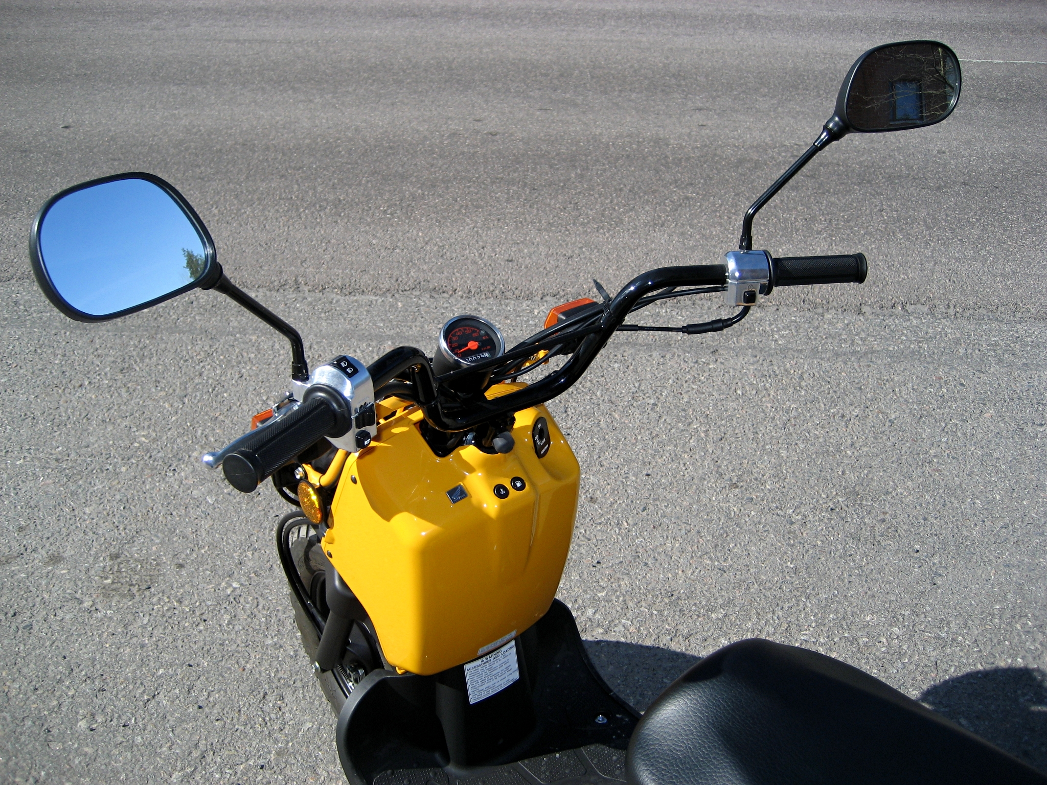 Honda Zoomer 50cc motor scooter (2008). A rider's view over the handlebar and speedometer.